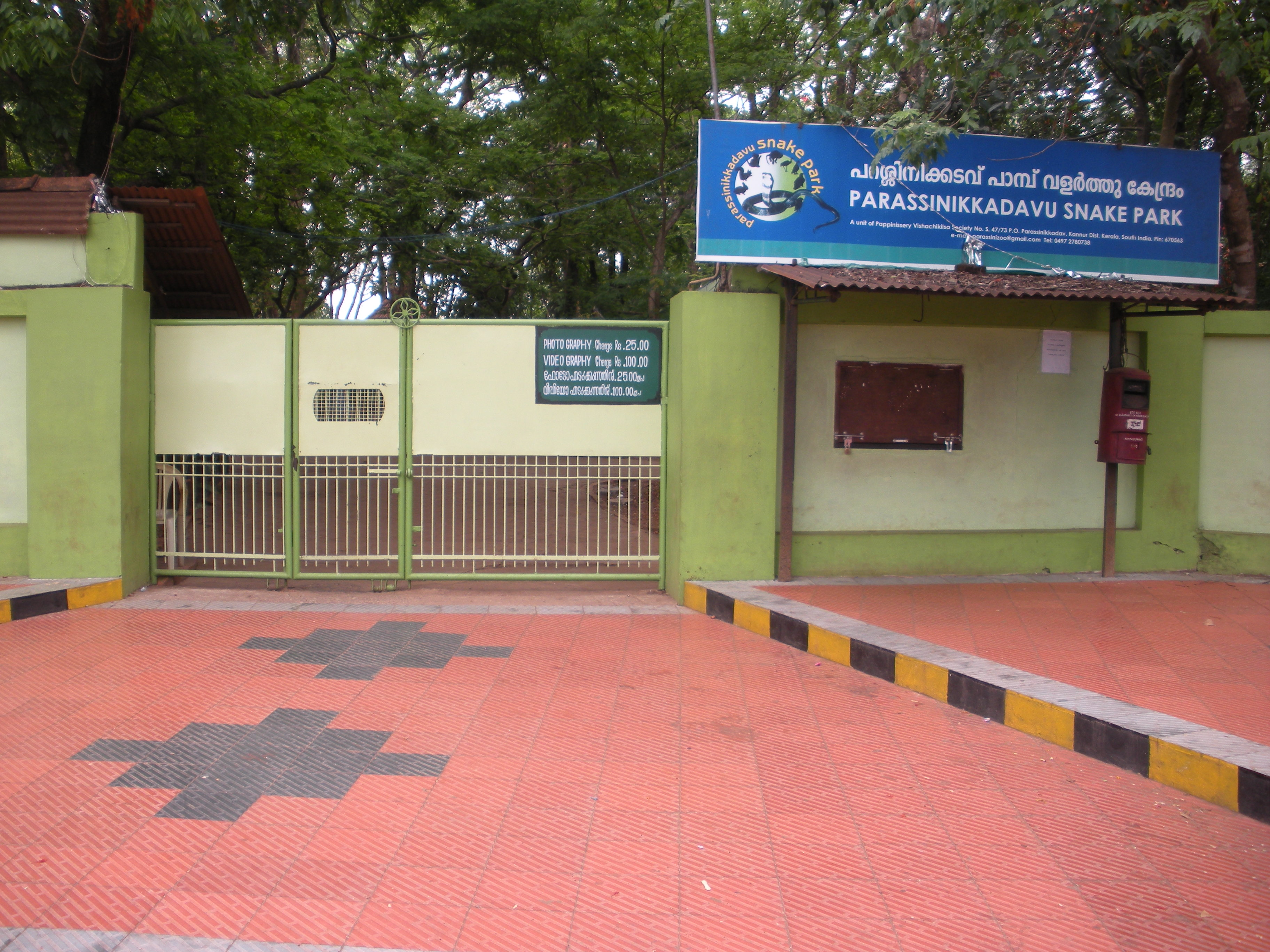 Front Gate of Snake Park, Parassinikkadavu , Kannore